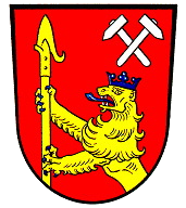 Coat of Arms of Westerngrund